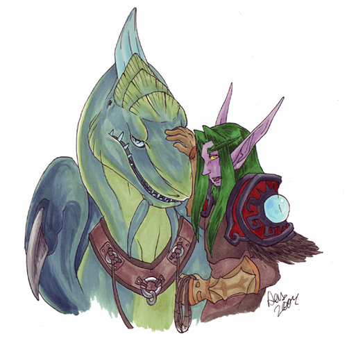 druid and dragon